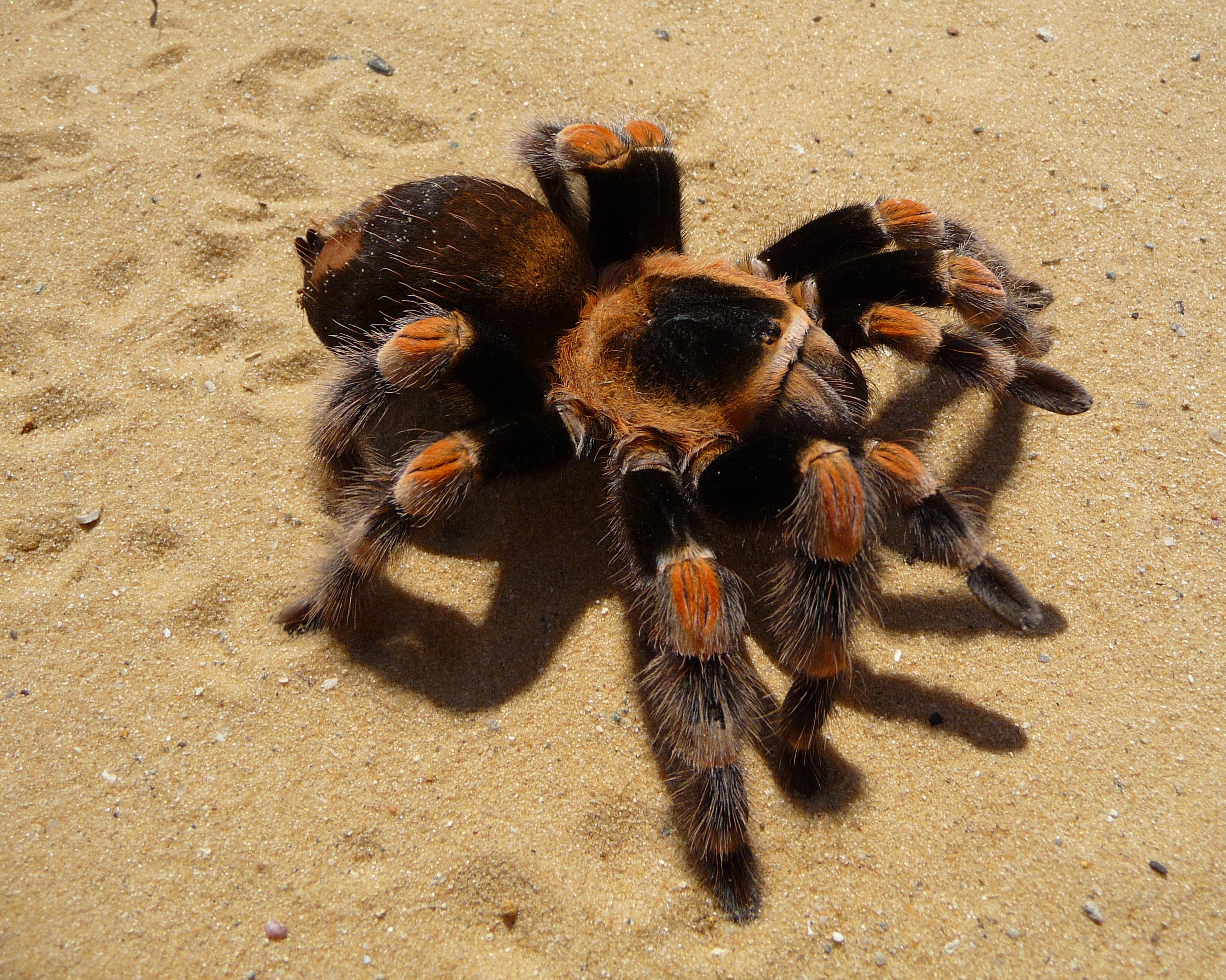 Mexican Red-kneed Tarantula, Mexican Red-kneed birdeater. Female (Brachypelma smithi)